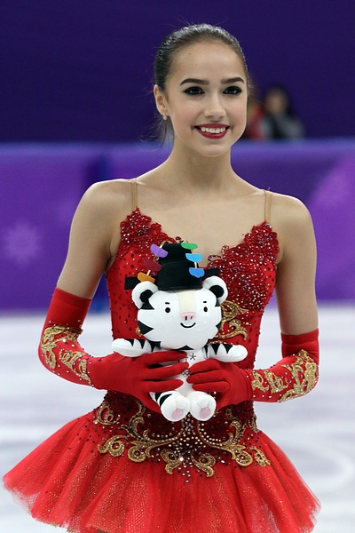 Alina Zagitova at the 2018 Winter Olympic Games - Awarding ceremony